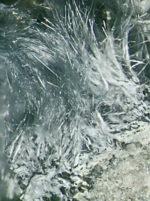 Riebeckite (FOV 4.3 x 5.8 mm) Locality: Poudrette quarry (Demix quarry; Uni-Mix quarry; Desourdy quarry), Mont Saint-Hilaire, Rouville RCM, Montérégie, Québec, Canada Original description: FOV 4.3 x 5.8 mm. Found 1996. Not analyzed. This "straight haired" variety from hornfels is perhaps the most common at MSH.